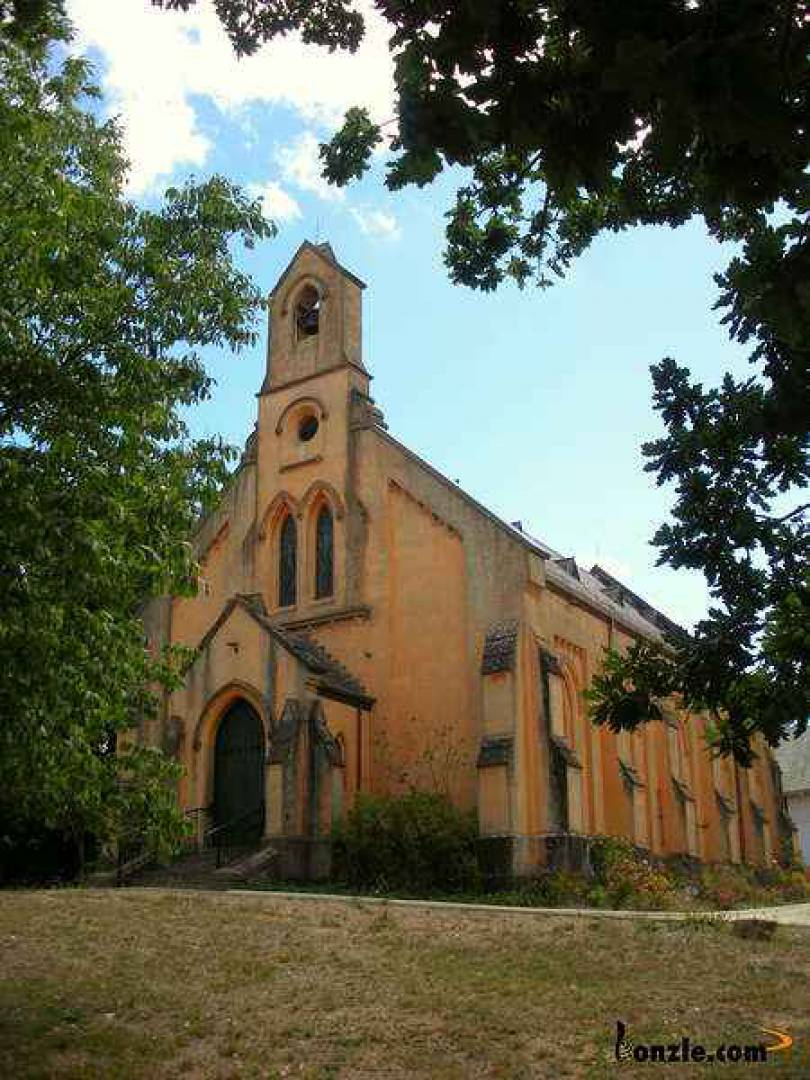 Gisborne Presbyterian Church GISBORNE, VIC 3437 Church Information Church Name: Gisborne Presbyterian Church Church Previous Name: St Andrew's Presbyterian Church Denomination: Presbyterian Church of Australia Street Address: 49 Fisher St, Gisborne VIC 3437, Australia Suburb: Gisborne State: VIC Postcode: 3437